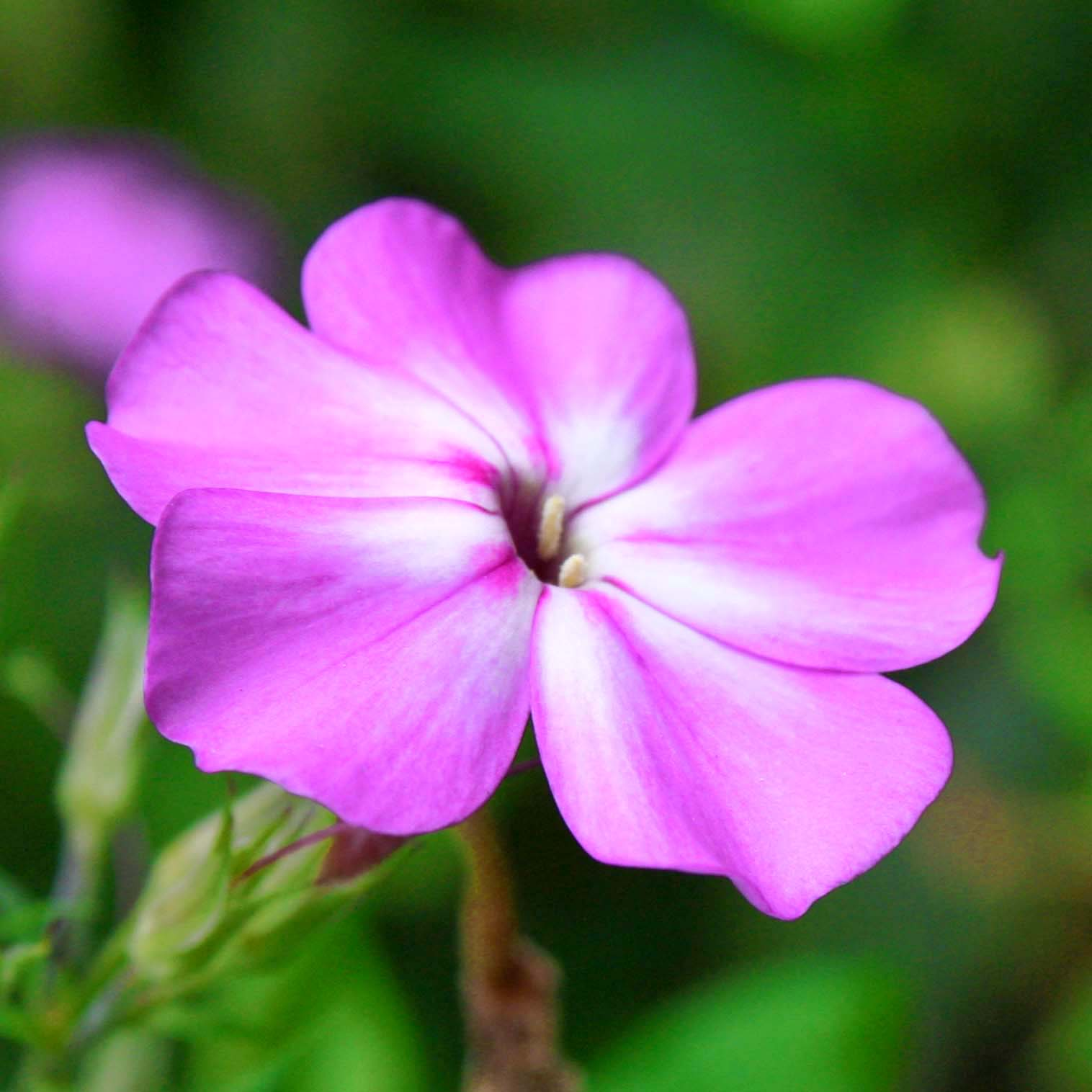 Phlox paniculata - Budapest, Hungary